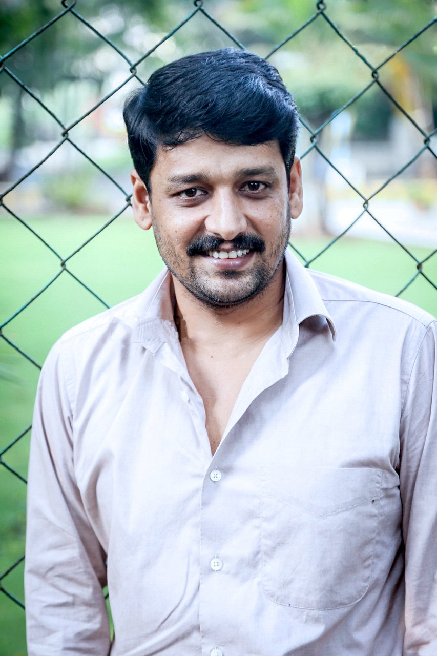 Actor Vidharth at Kaadu Movie Press Meet